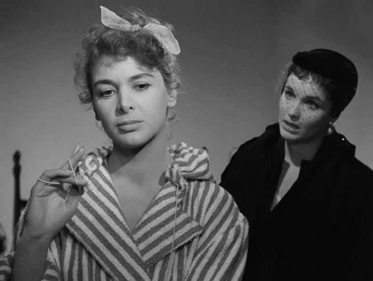 Yvonne Furneaux and Eleonora Rossi Drago in a scene of the film Le amiche